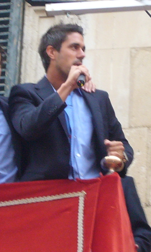 Dani Bautista (with microphone in hand) on the balcony of the City of Alicante during the celebrations for the rise of Hércules C. F. to First division in 2009/10 season.